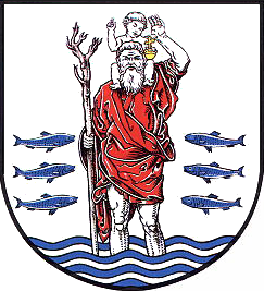 Coat of arms of Kappeln Blasonierung: In Silber, beiderseits begleitet von je drei blauen, zueinander gekehrten Heringen, der heilige Christophorus in Vorderansicht, barhaupt, mit rotem Mantel und silbernem Bart, die nackten Beine in abwechselnd blauen und silbernen Wellen verschwindend, in der rechten Hand einen astförmigen, naturfarbenen Stab, mit der linken den Jesusknaben, der die rechte Hand segnend erhebt und mit der linken die Weltkugel in Gold auf seinem linken Knie umfasst, auf seinen Schultern haltend.